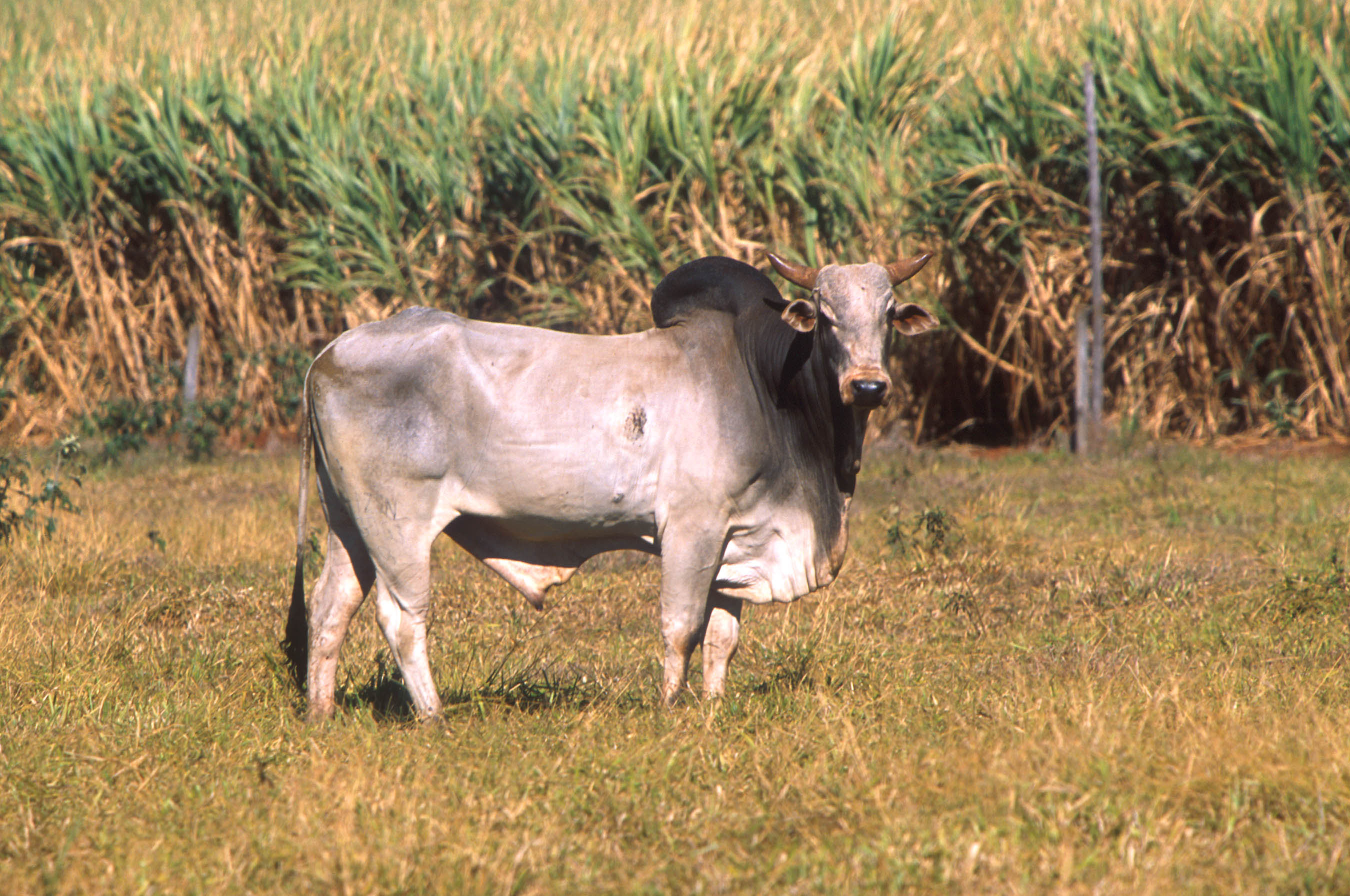 Original caption: “Cattle in Brazil, like this Zebu bull, represent a different gene pool from U.S. cattle and could help scientists locate genes for desirable traits like tick resistance and heat tolerance.”